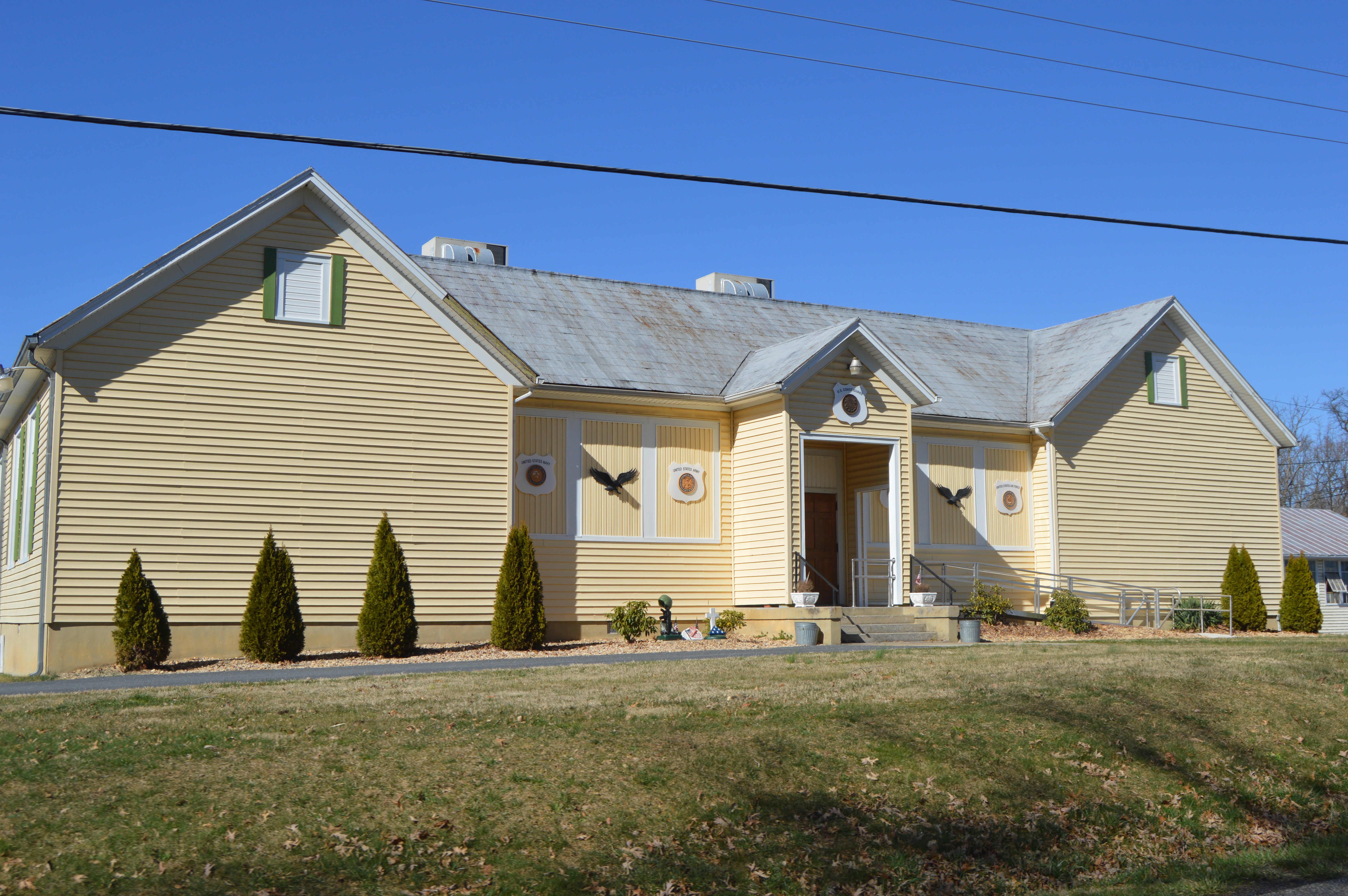 Front of the Augusta County Training School (now home to the American Legion), located on Cedar Green Road just west of Staunton in Augusta County, Virginia, United States. Built in 1938, it is listed on the National Register of Historic Places.